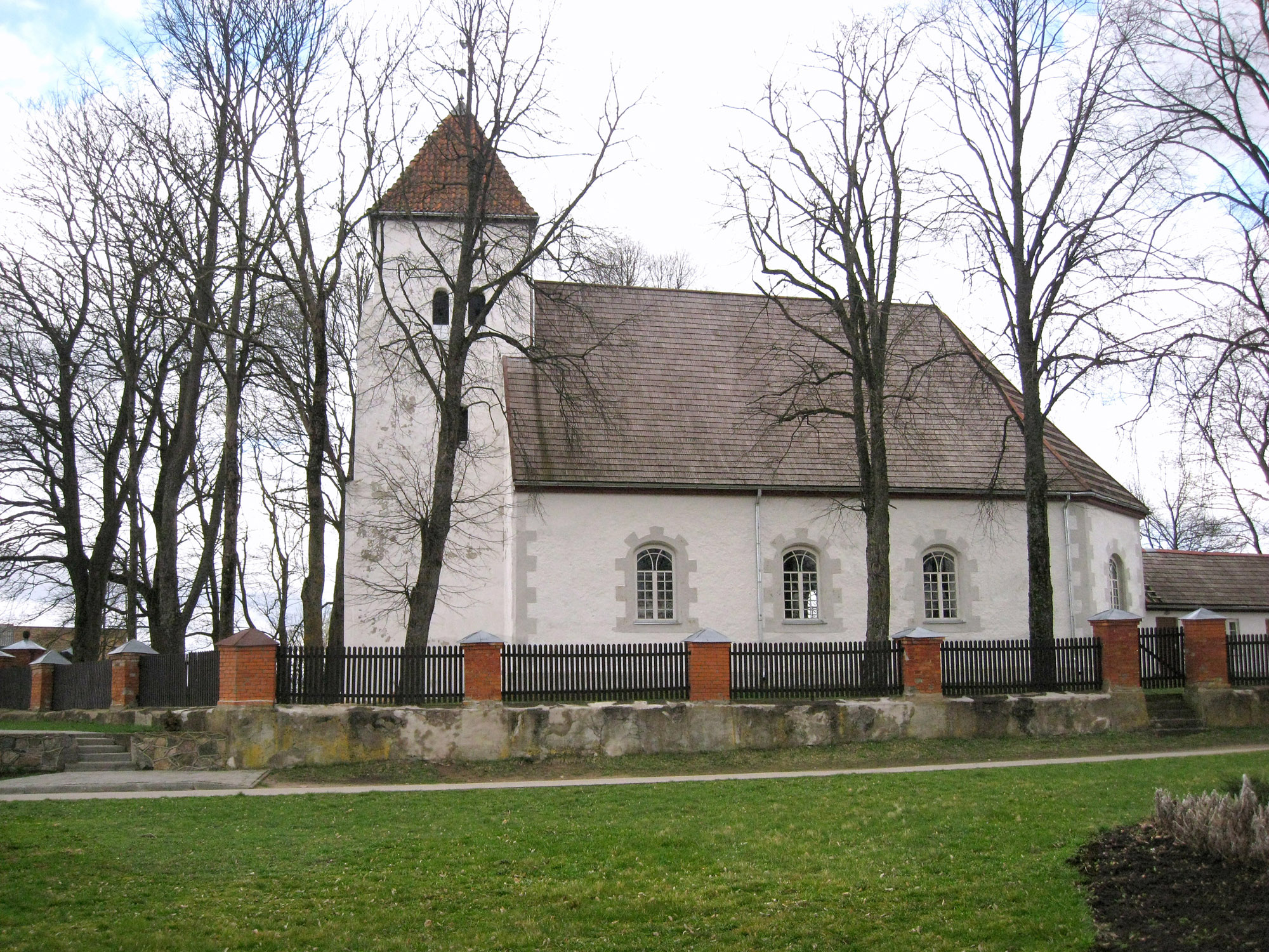 Valdemarpils Evangelic Lutheran Church